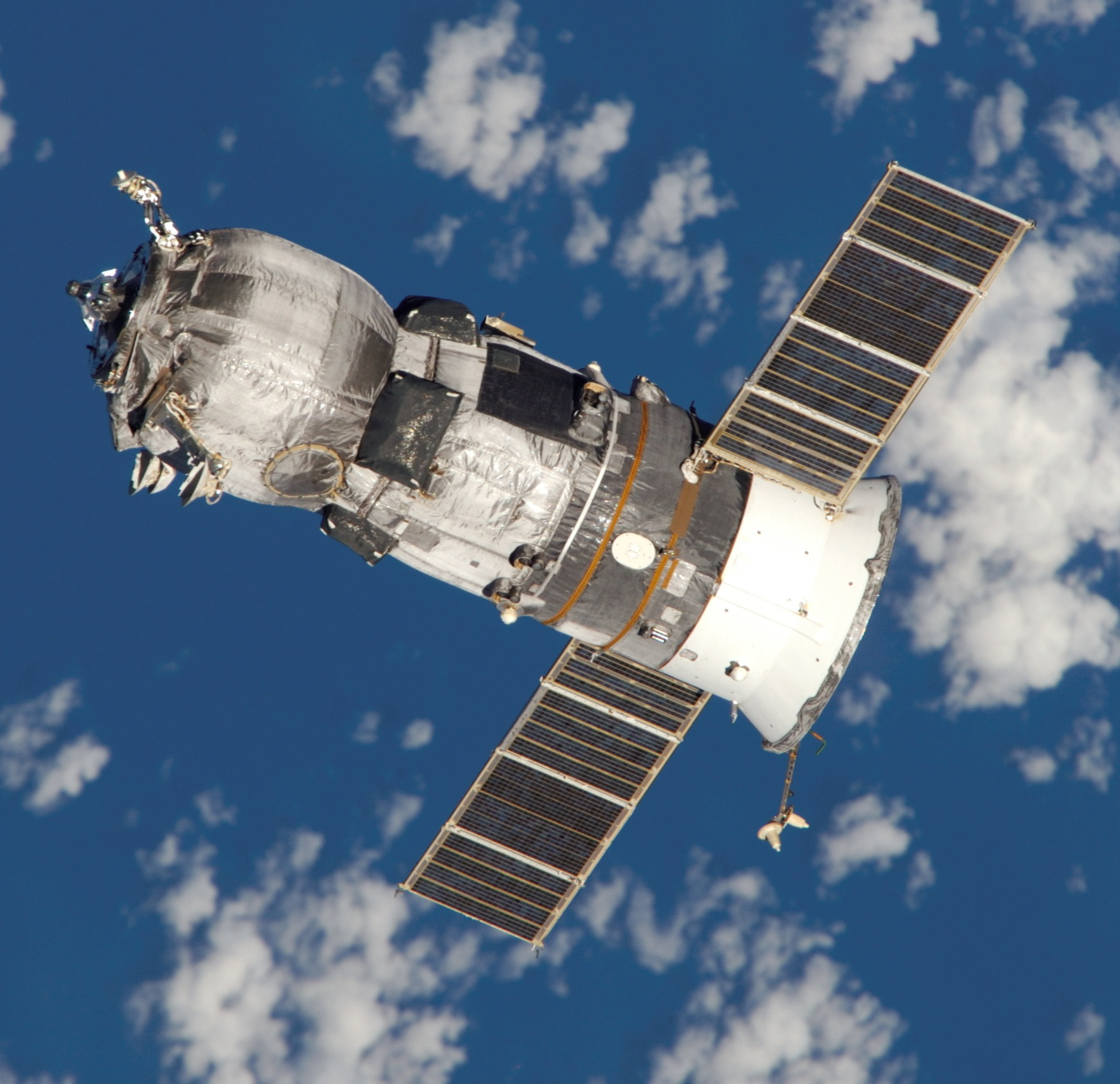 ISS011-E-08855 (15 June 2005) --- Backdropped by a blue and white Earth, an unpiloted Progress 17 supply vehicle departs from the International Space Station (ISS) at 3:16 p.m. (CDT) on June 15, 2005, carrying its load of trash and unneeded equipment to be deorbited and burned up in Earth’s atmosphere. The undocking clears the way for the arrival of a new Progress 18, planned to launch June 16 and dock with the Station on June 18.